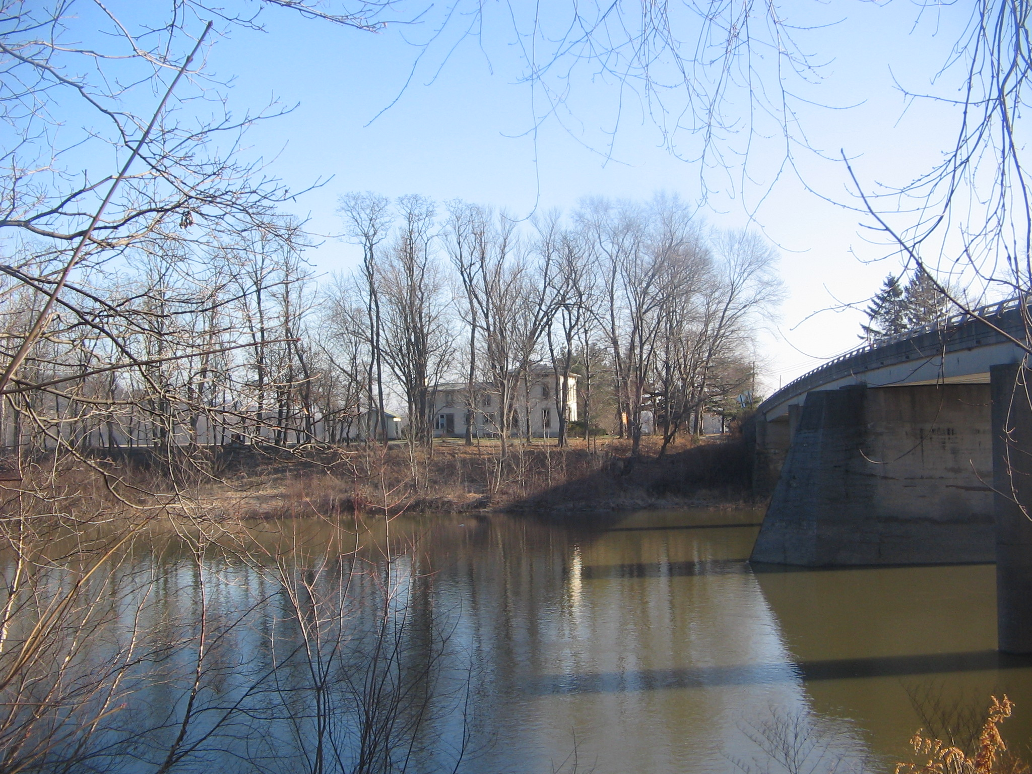 View east of the West Branch Susquehanna River and the Great Island in Woodward Township, Clinton County, Pennsylvania, United States. View is from the shore of Memorial Park in Lock Haven.